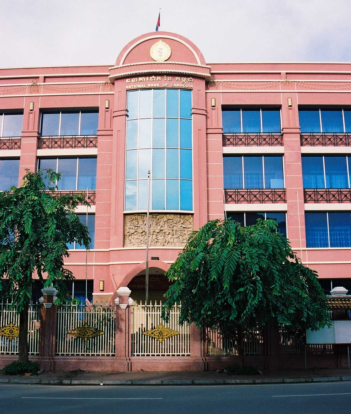 Exterior of the National Bank of Cambodia. Norodom Blvd. Phnom Penh. Also known as the "Red Bank."